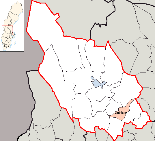 Säter Municipality in Dalarna County Designd by me, based on Image:Dalarna County.png